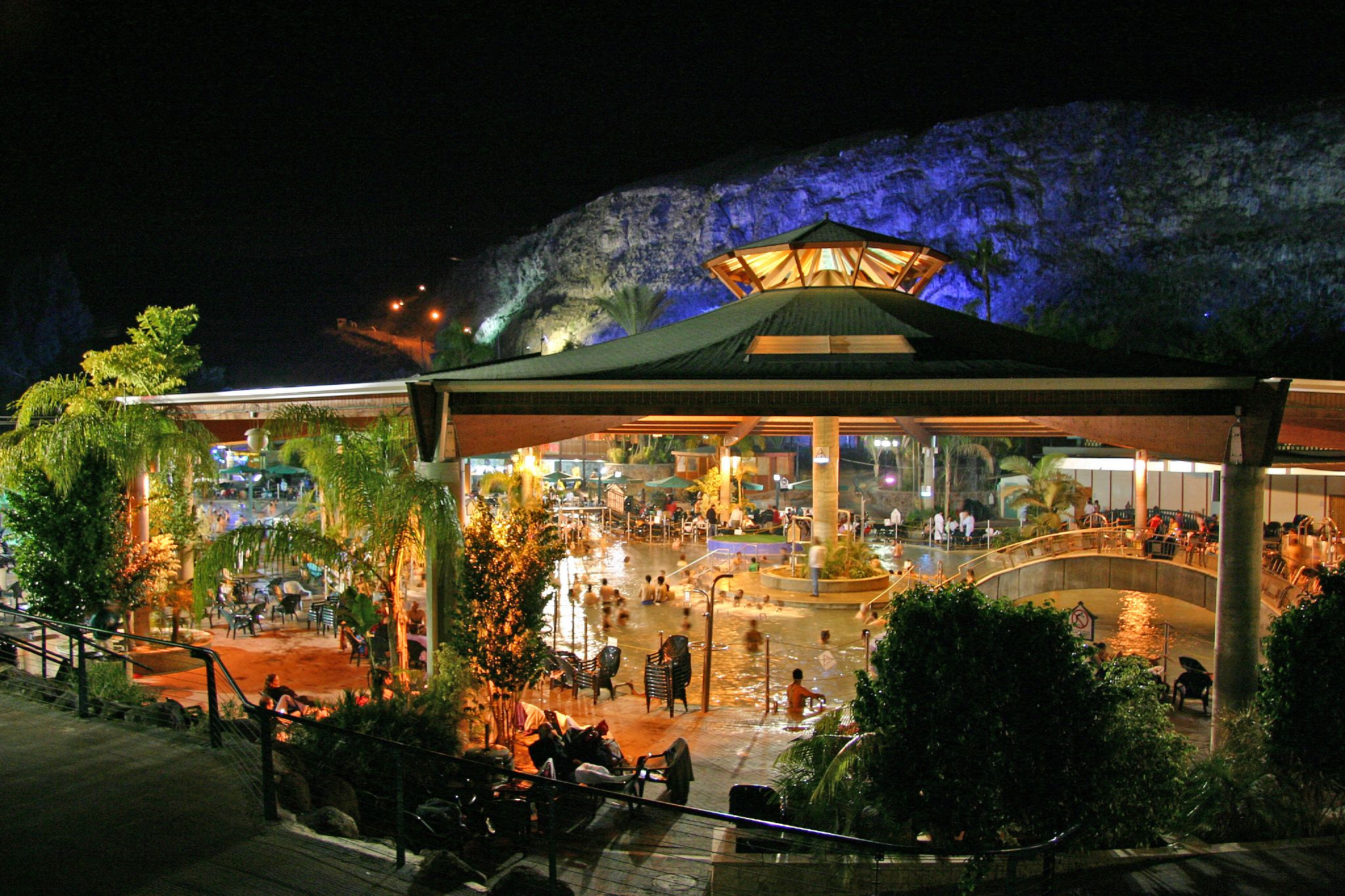 Hamat Gader The thermomineral water baths offer a wealth of attractions and facilities to soothe and relax the body. Spacious pools filled with water that emerges from the depths of the earth, has medicinal and curative properties, and circulates naturally every few hours. Jacuzzi beds and chairs that massage every part of the body. Water jets to relieve neck, shoulder, and back tensions. A luxurious bubble pool. A huge waterfall to relax the body. Intimate wooden chalets for a variety of massages and alternative treatments